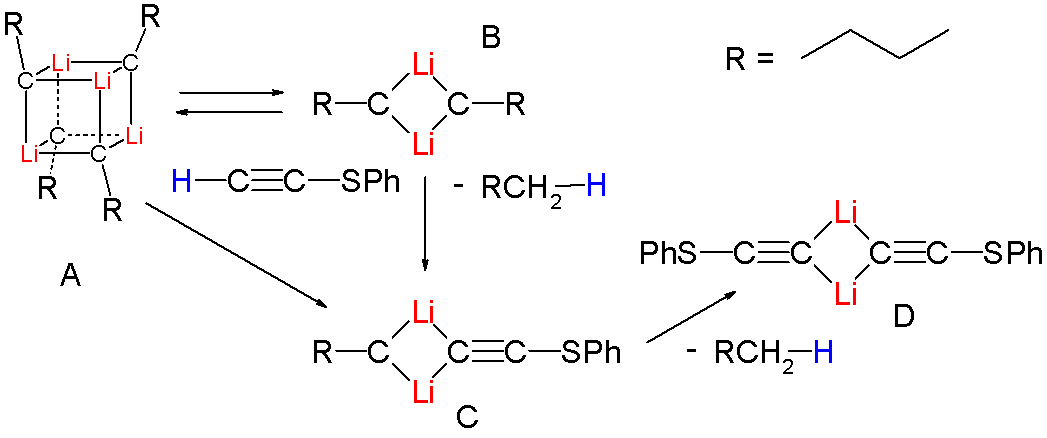 Organolithium Aggregates